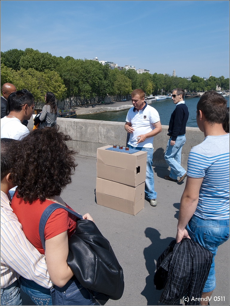 Around the Eiffel Tower you find a rich (and poor) mixture of people. On the bridge crossing the Seine - Pont d`Iéna - you can play the Shell game and a lot of money is involved (50 Euro a bid). Once the police arrives the boxes disapear behind the wall (and were blown in the Seine in this case). I left the place with mixed feelings.